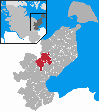 This map shows the area of the former Amt (county) Schönwalde in the Kreis (district) Ostholstein, Schleswig-Holstein, Germany.